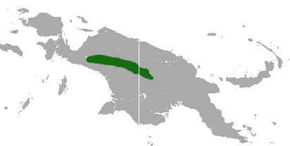 Seri's Tree Kangaroo (Dendrolagus stellarum) range